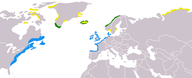 Calidris maritima map; yellow:summer; blue:winter; green:year-round